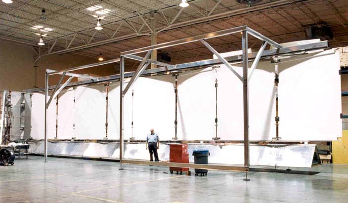 Heat Rejection System (HRS) Radiator during deployment testing at Lockheed Martin Michoud Operations, New Orleans